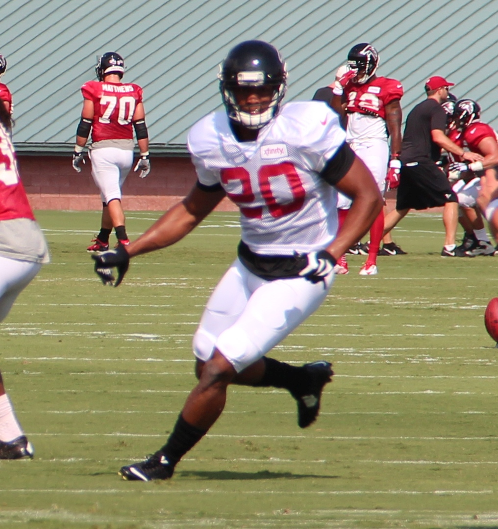 Sharrod Neasman at Falcons training camp, 2016